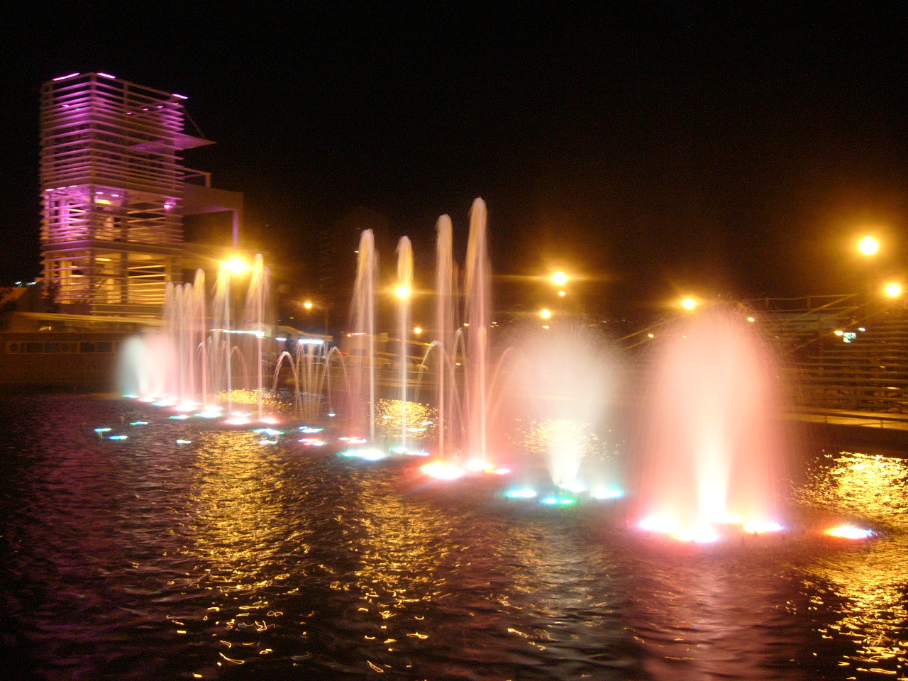 Dancing Fountains in Chihuahua, Chihuahua, Mexico.